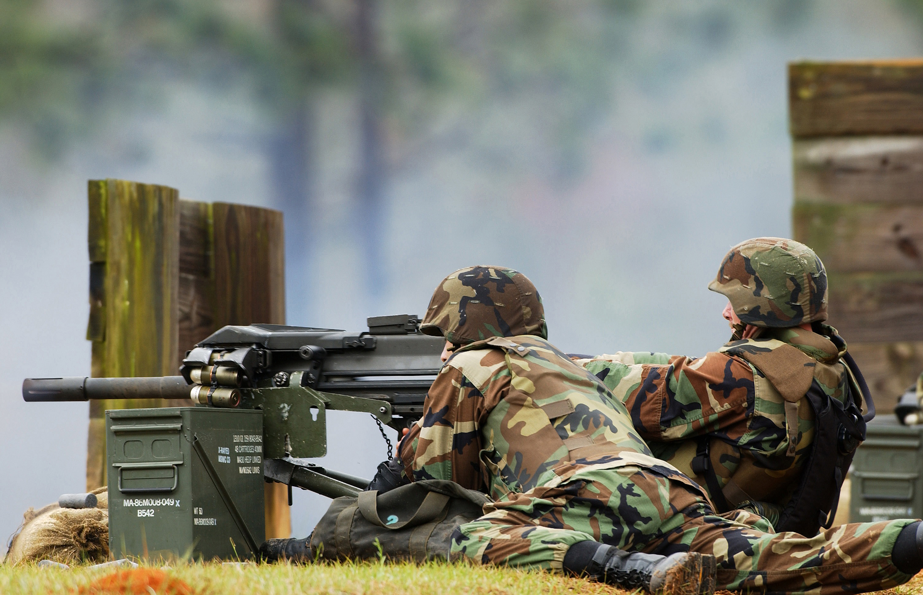 Camp Shelby, Miss. (Mar. 17, 2003) -- U.S. Navy reservists assigned to Naval Construction Force Support Unit Three and Naval Mobile Construction Battalion Twenty Four (NMCB-24) fire the MK-19 40mm grenade launcher during MIL-EX 2003. The two-week long exercise is conducted by the 20th Seabee Readiness Group, Naval Construction Battalion Center, Gulfport, Miss., and is designed to qualify reserve Seabee forces in various combat skill sets. U.S. Navy photo by Tom Witham. (RELEASED).